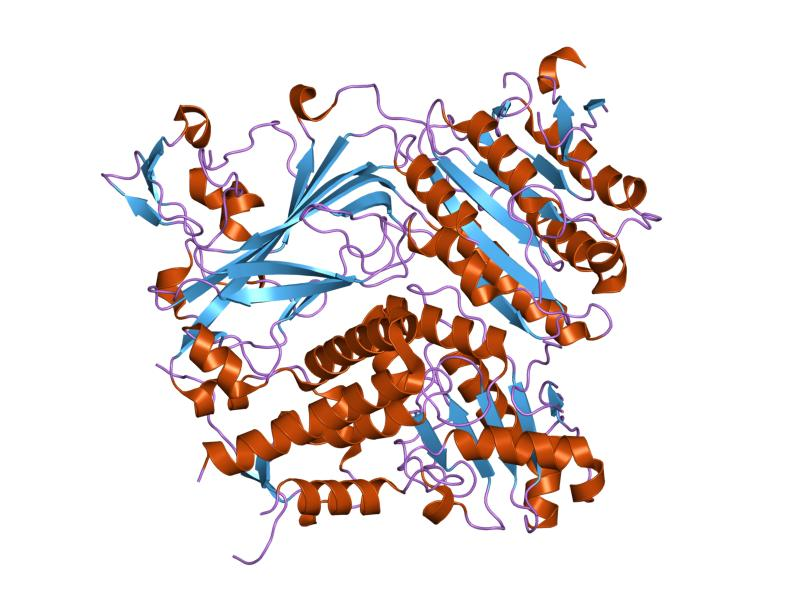 Cartoon representation of the molecular structure of protein registered with 1pd0 code.